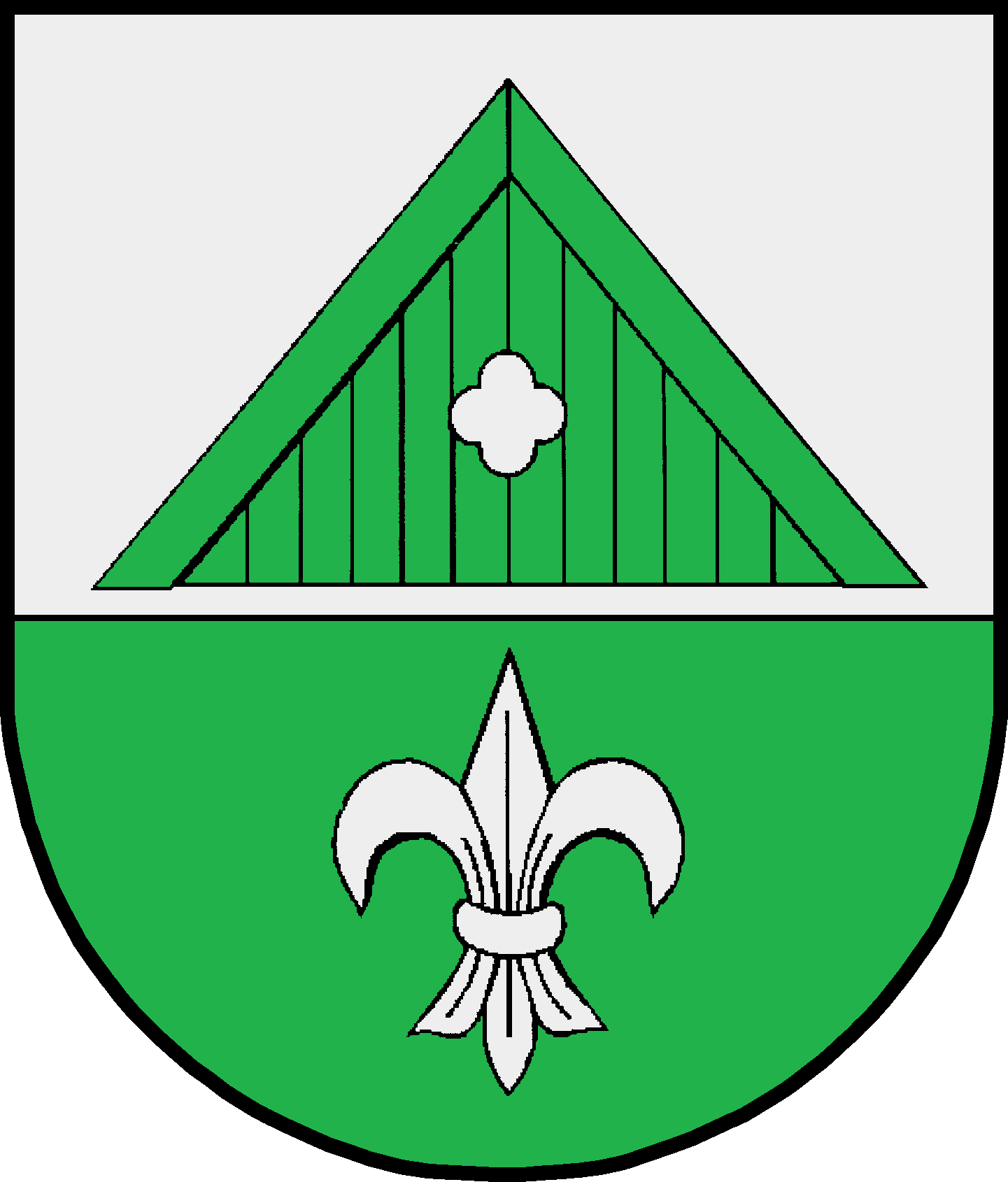 Coat of arms of the municipality Rendswühren in Schleswig-Holstein, Germany.